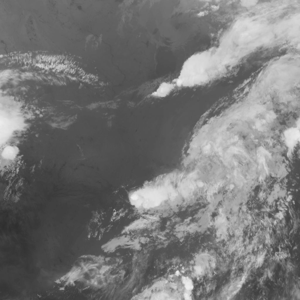 Geostationary imagery of Hurricane Laura (13L) (2020)